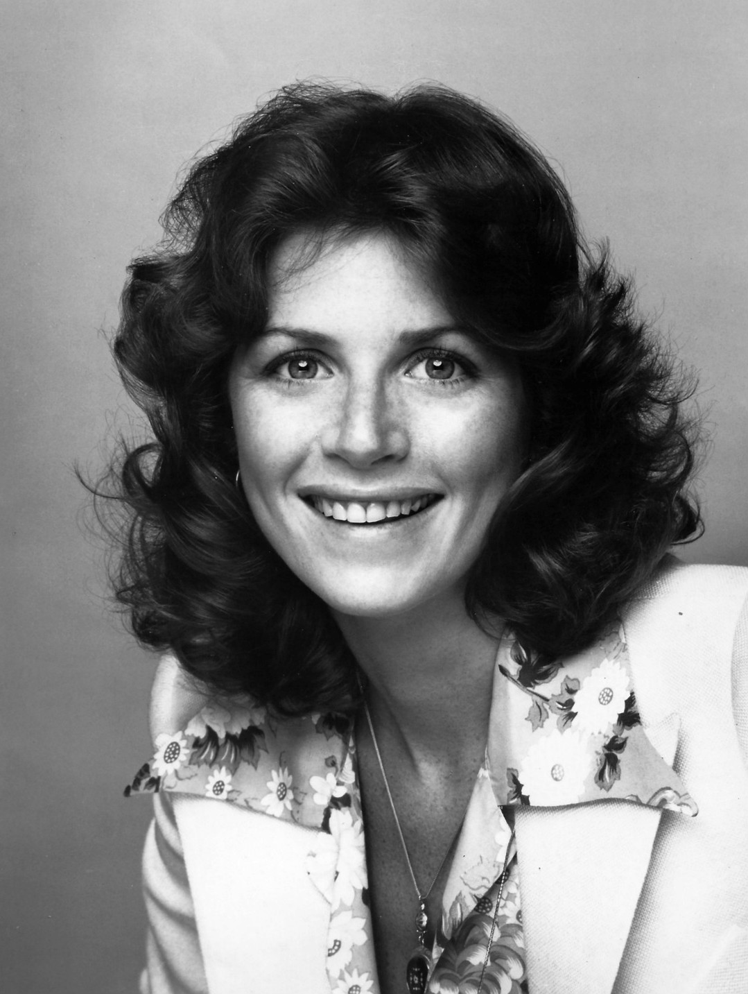 Photo of Marcia Strassman from the television program Welcome Back, Kotter. Strassman played Julie Kotter, the wife of teacher Gabe Kotter.